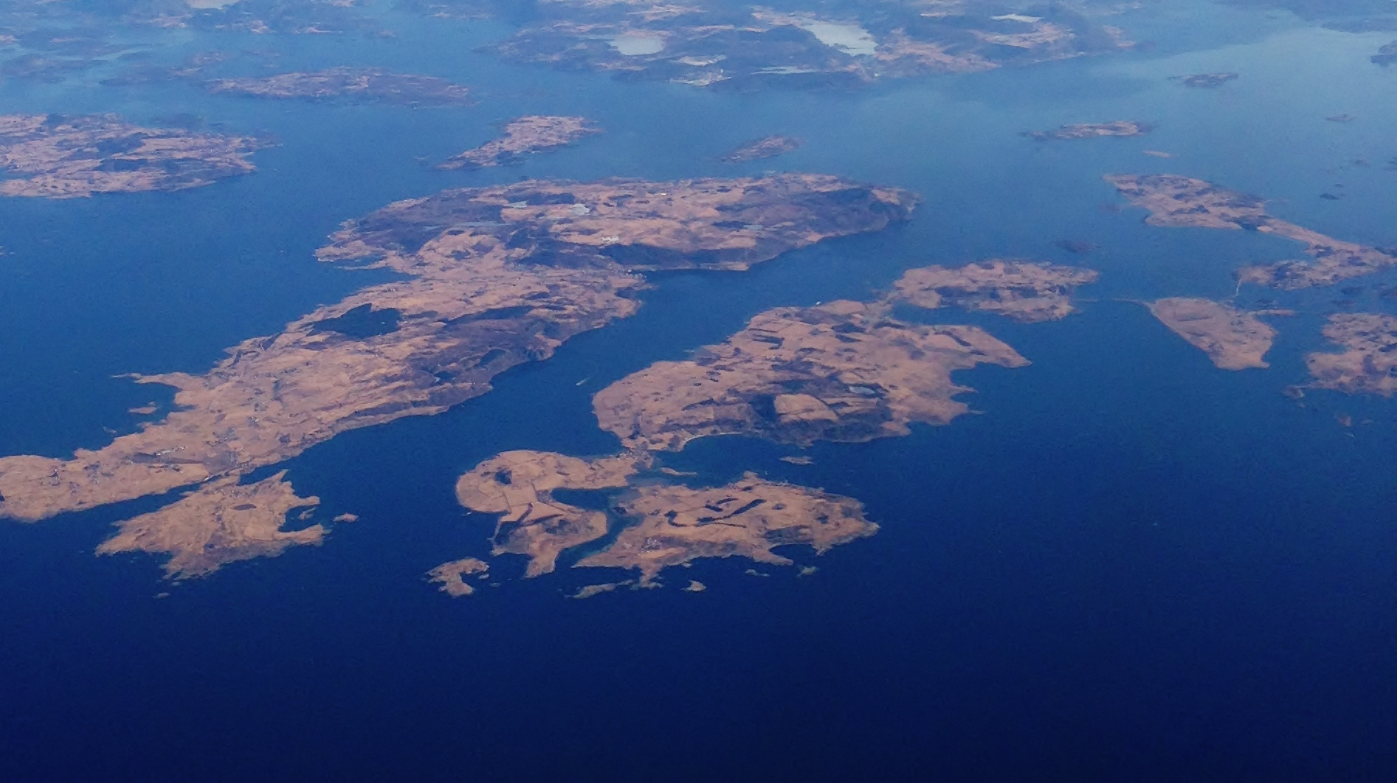 Rennesøy (left) and Mosterøy (right) Islands north of Stavanger, Rogaland, Norway